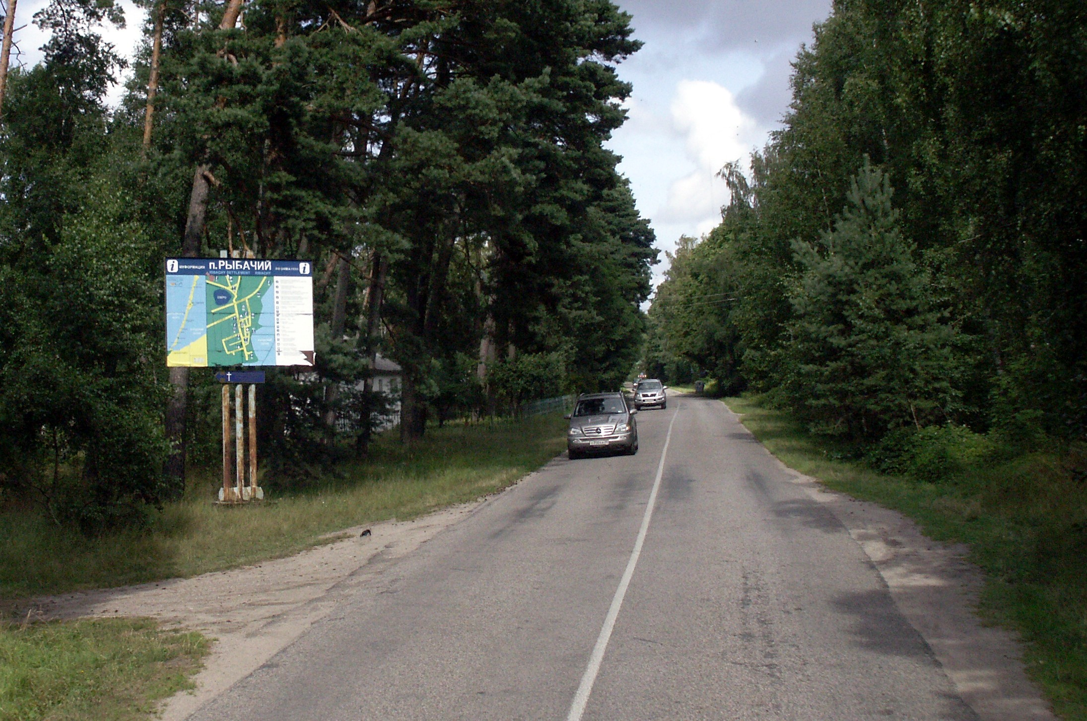 Rasytė in Curonian Spit, Kaliningrad oblast